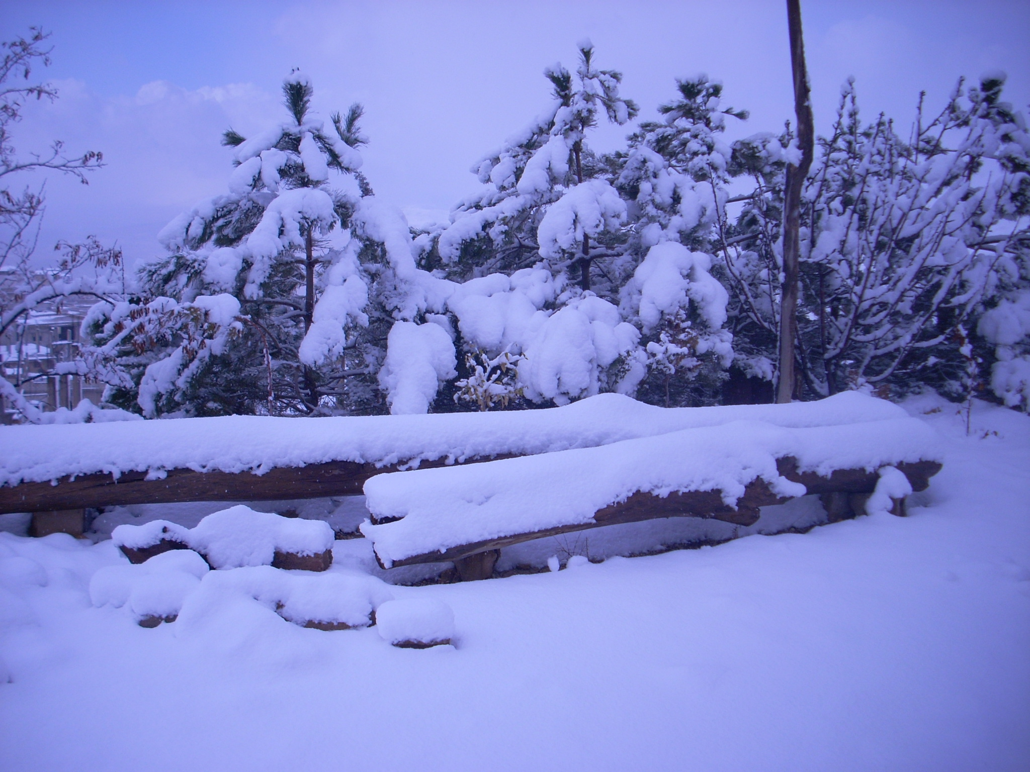 Snowy morning in the village of Efra, Syria